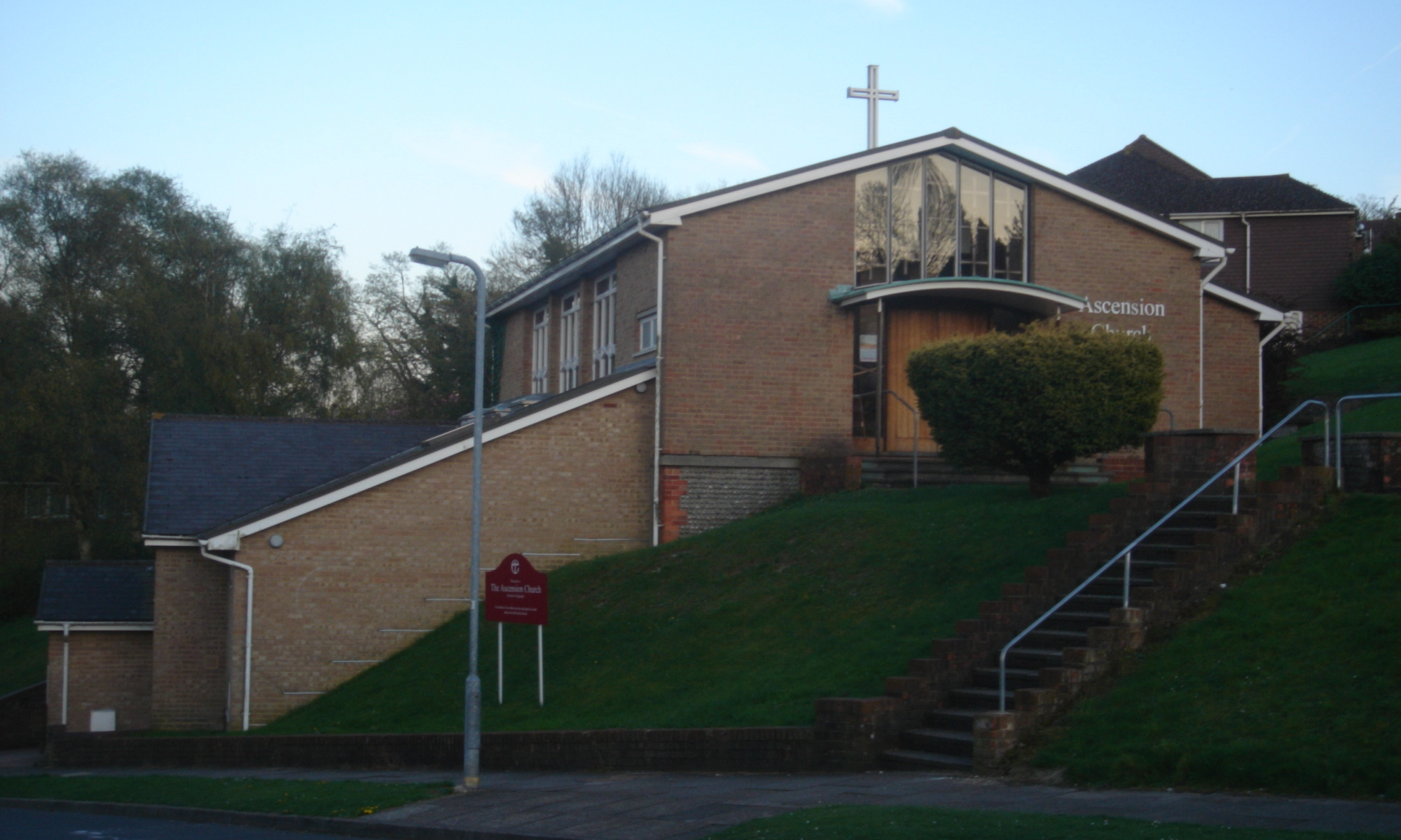 Church of the Ascension, Dene Vale, Westdene, City of Brighton and Hove, England. A 1950s Anglican church serving this postwar estate. Part of the parish of All Saints Church, Patcham.